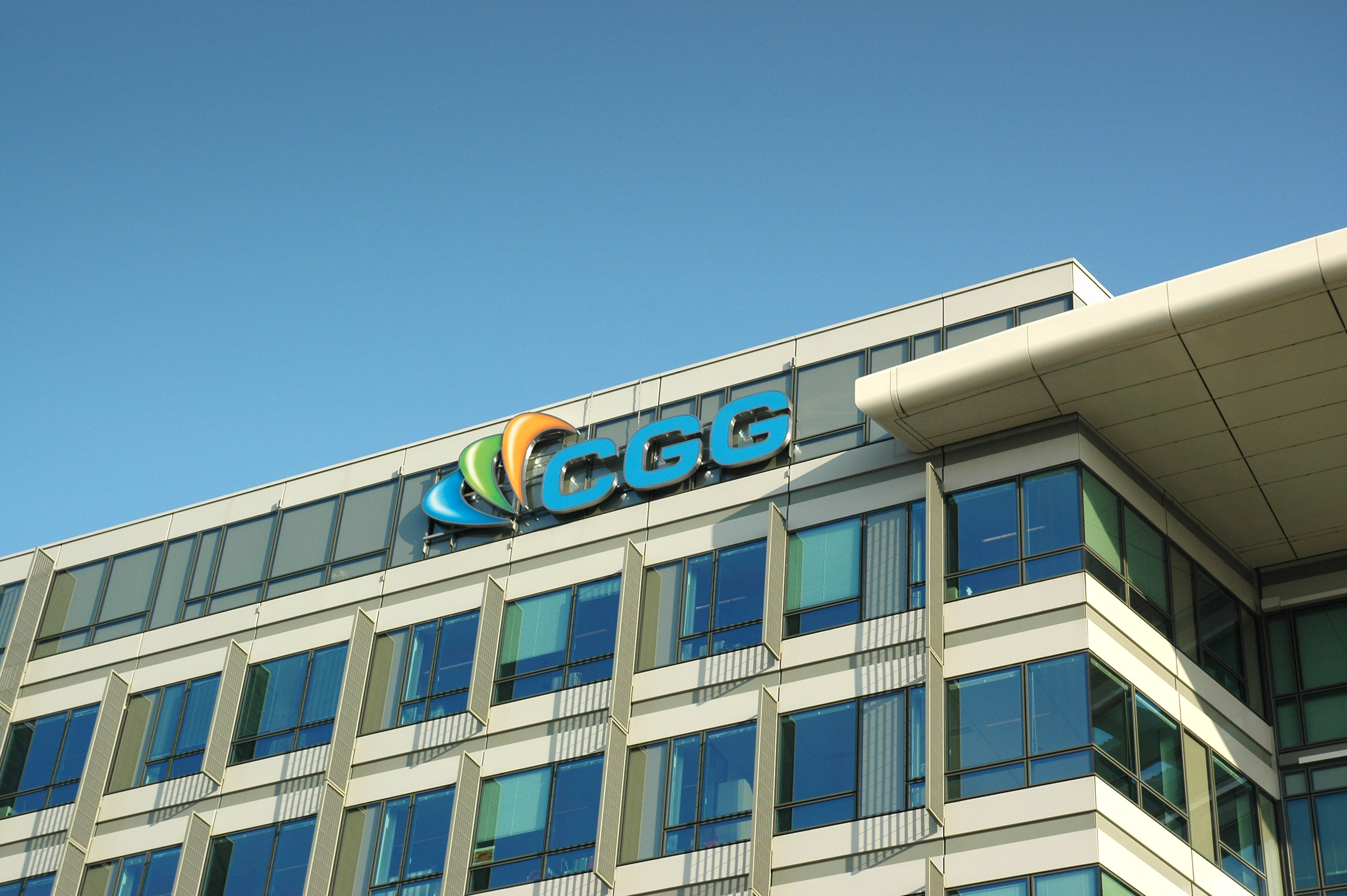 CGG Office located at 27 Carnot avenue in Massy, Essonne in France